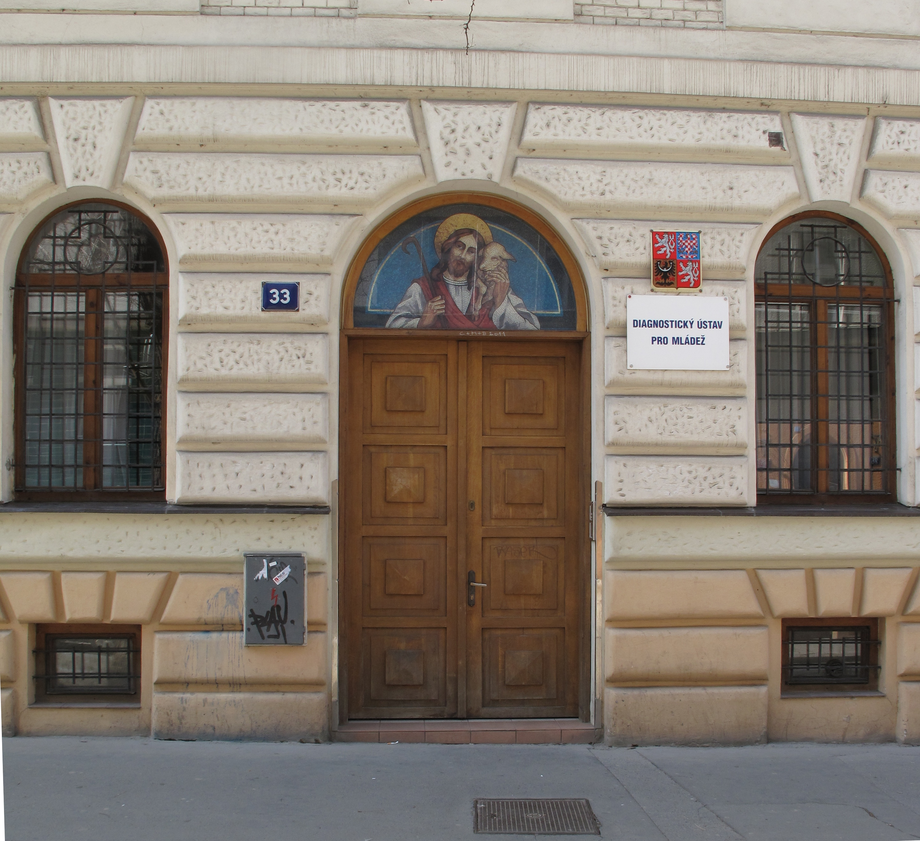 House of the Youth Detention Center Lublaňská 33, Prague 2 - New Town, Czech Republic. Neorenesance facade decorated by sgraffito and plastic rustication.